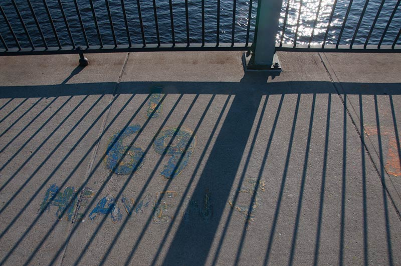 Smoot mark 69 on the upstream (west) side of the Harvard Bridge over the Charles River between Boston and Cambridge, Massachusetts, USA.